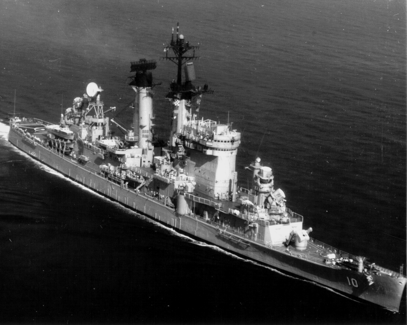 The U.S. Navy guided missile cruiser USS Albany (CG-10) underway. The photo was taken after 1968, when the SPS-48 radar was added.